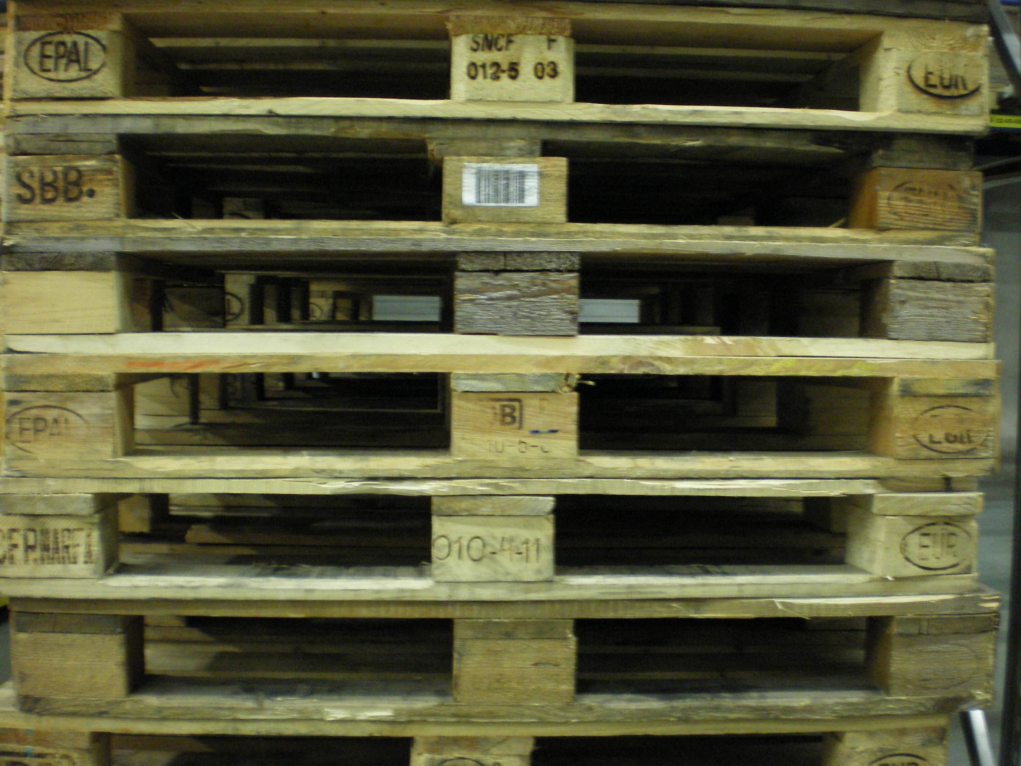 Stack of counterfeit euro pallets. Photo taken at HUDORA Remscheid